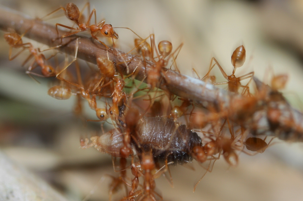 Go team ant.